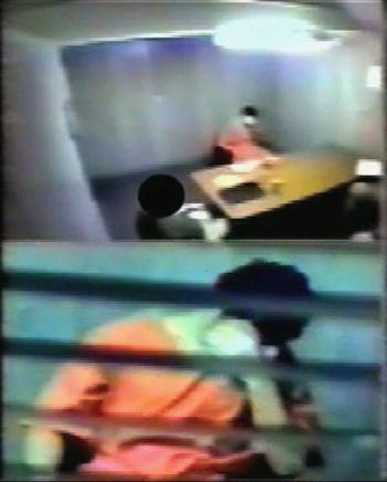 This image is taken from a video secretly recorded when 16 year old Guantanamo captive Omar Khadr was interrogated by Canadian officials in Guantanamo.